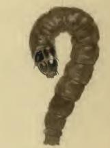 Stainton’s Natural History of the Tineina (1855–1873): Aristotelia brizella